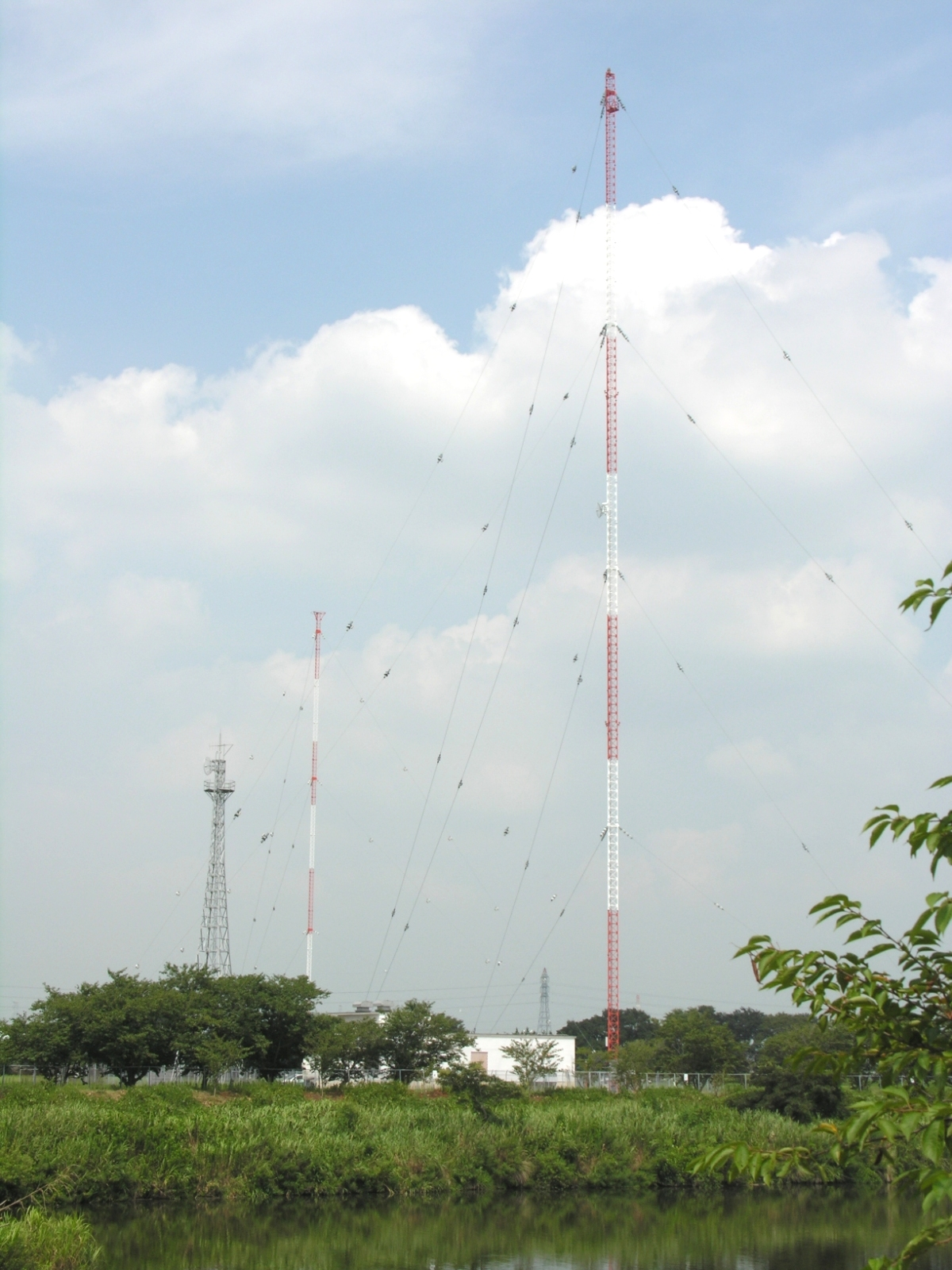 The Broadcasting Antenna of Nippon Broadcasting Systen (Nippon Housou) in Kisarazu